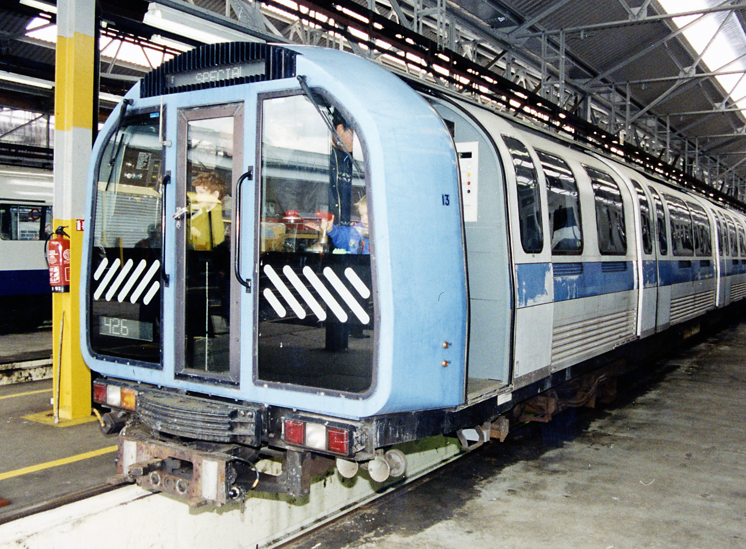 Ruislip Central Line Demonstration Stock